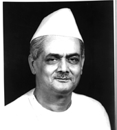 Caption:- Studio/June.52,A32mShri G.V. Mavalankar, Indian politician Photo Number:-27679a